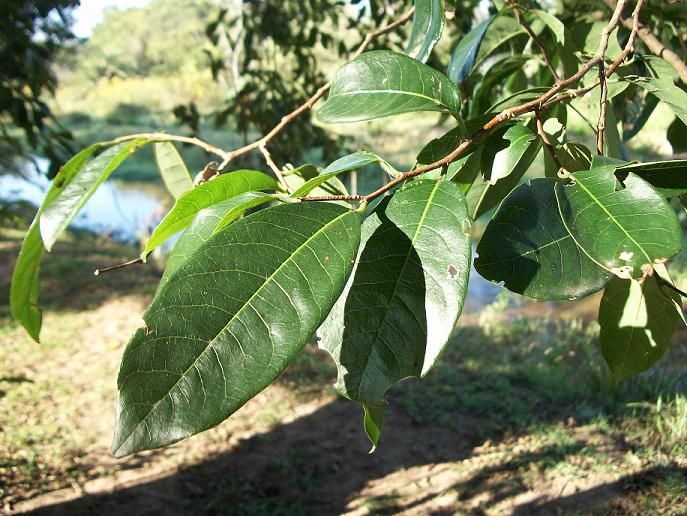 Margaritaria discoidea var. fagifolia? mature leaves at Ilanda Wilds